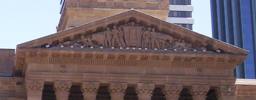 Brisbane City Hall sculptured Tympanum ( this photograph was taken by Figaro )